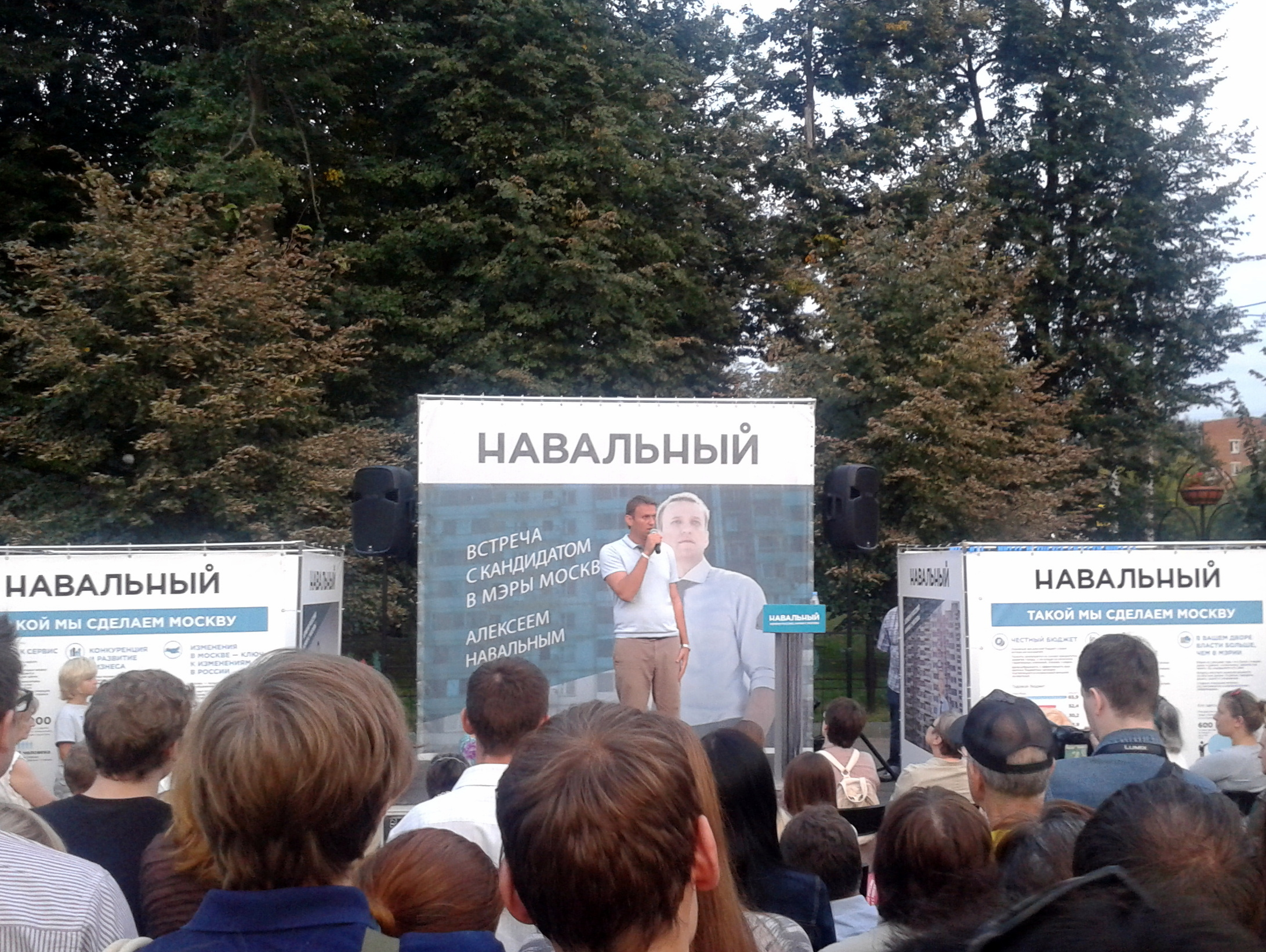 Meeting of Alexei Navalny, a mayoral candidate in Moscow, with his constitutions in Zelenograd, 22.08.2013